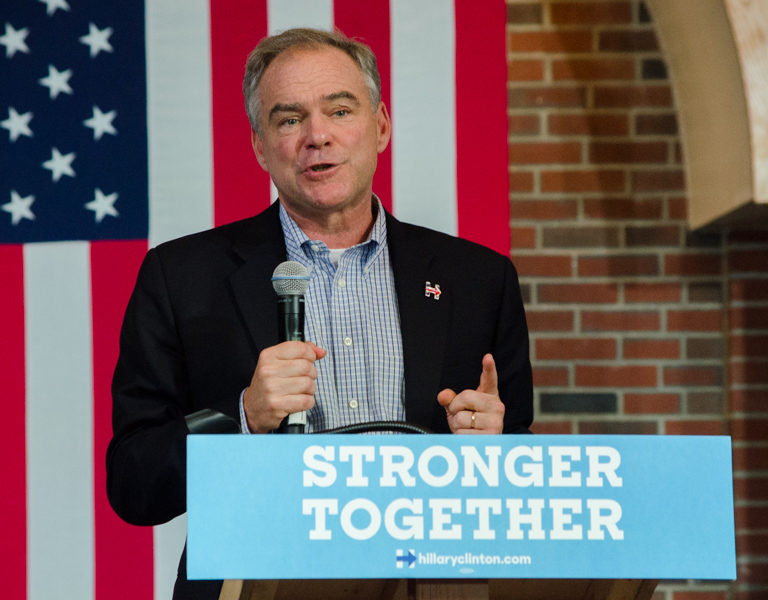 Vice-Presidential candidate Tim Kaine at a Clinton/Kaine rally, St. Anselm College, Manchester, New Hampshire, August 13, 2016.